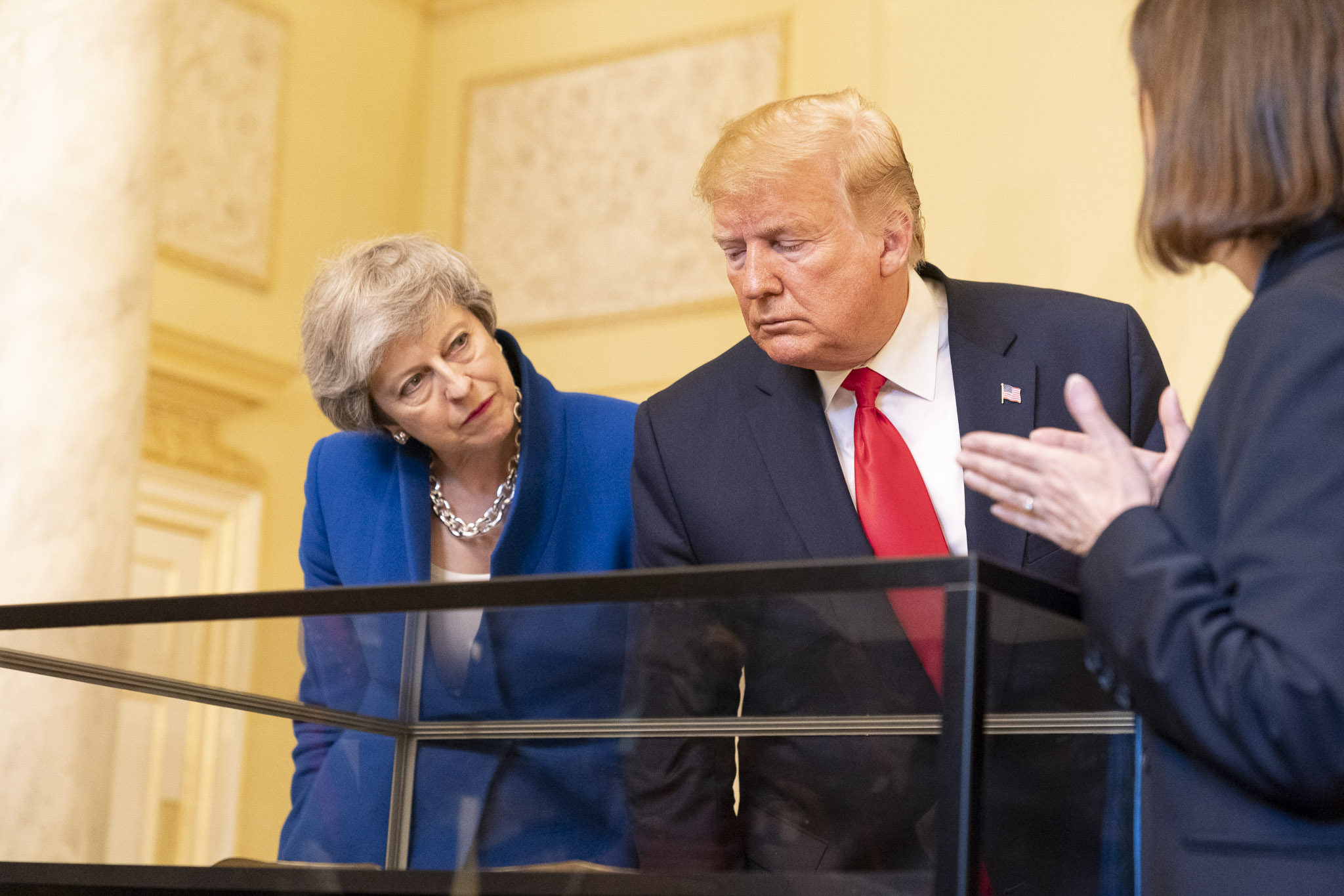 President Donald J. Trump along with British Prime Minister Theresa May and her husband Mr. Philip May view a displayed copy of the Declaration of Independence at No. 10 Downing Street Tuesday, June 4, 2019, in London. (Official White House Photo by Shealah Craighead)